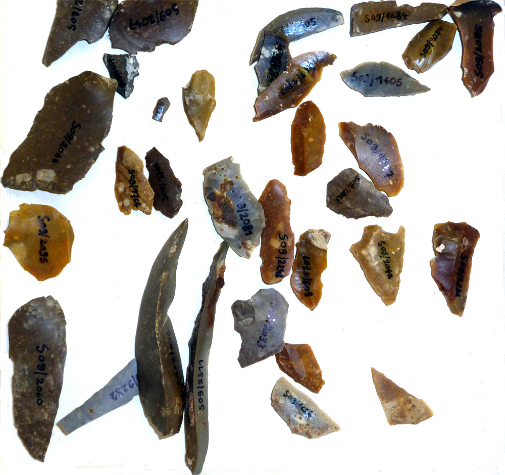 Microliths (mostly Wommersom quartzite) from excavation in Stevoort 2008 (Collection Prehistoric Archeology K.U.Leuven)